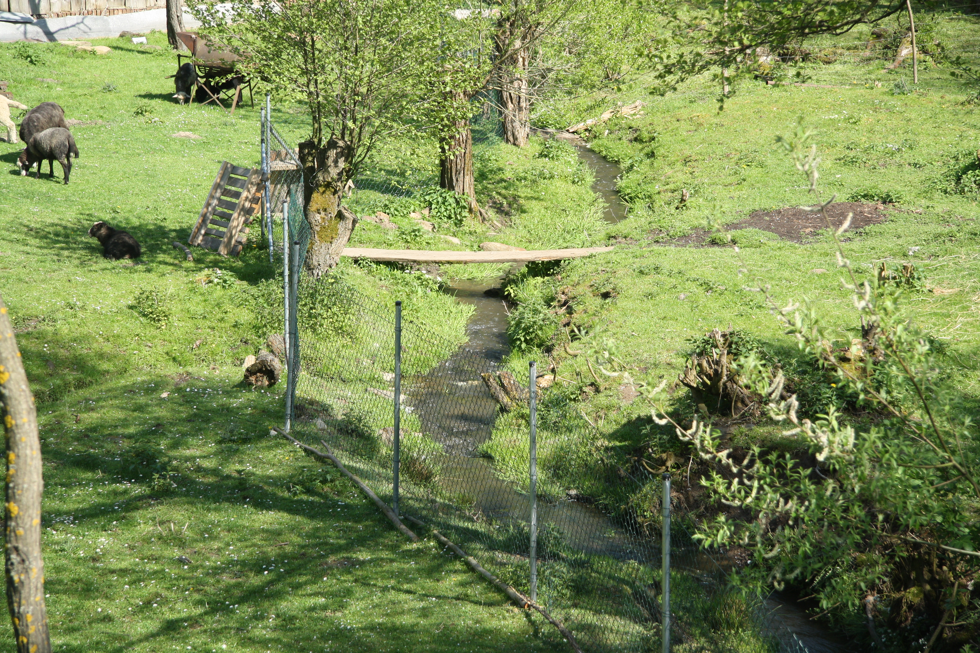 Dašov stream near Dašovský mlýn in Dašov, Štěměchy, Třebíč District.